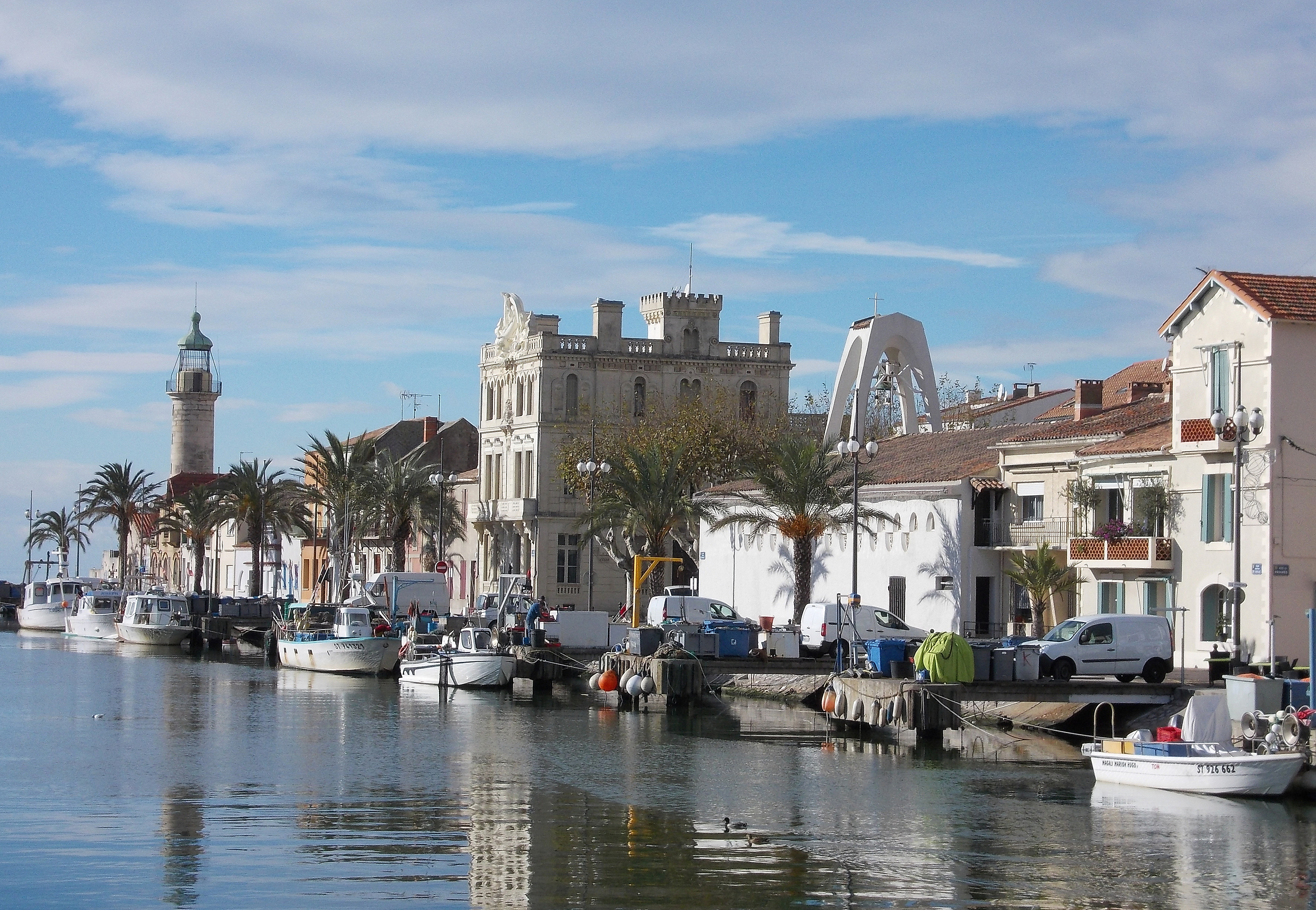 Harbour in Le Grau-du-RoiNorsk bokmål: Havneområdet i Le Grau-du-Roi